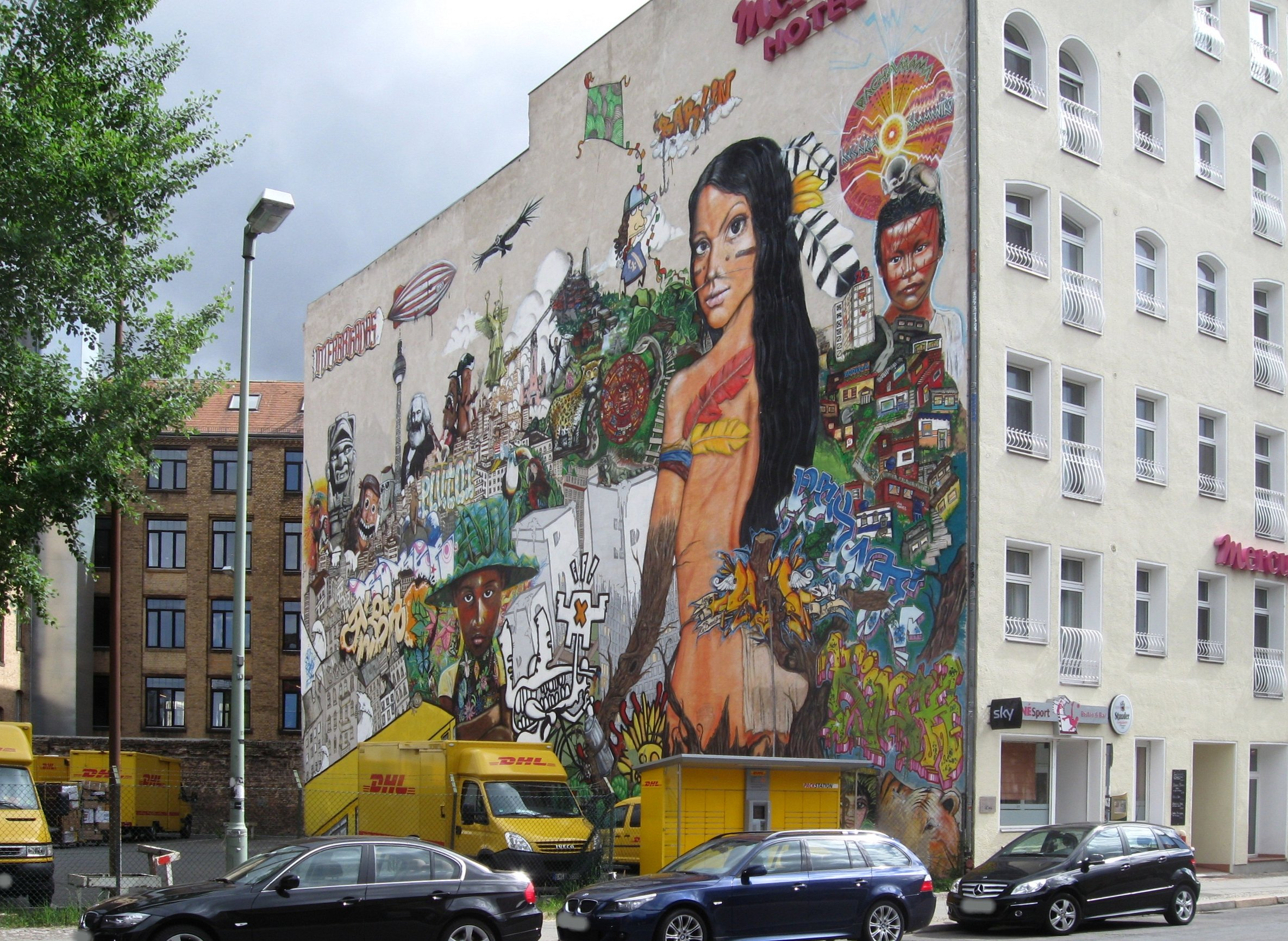 Graffiti in Berlin, Luckenwalder Street, taken near the venue of the Berlin Hackathon 2012.